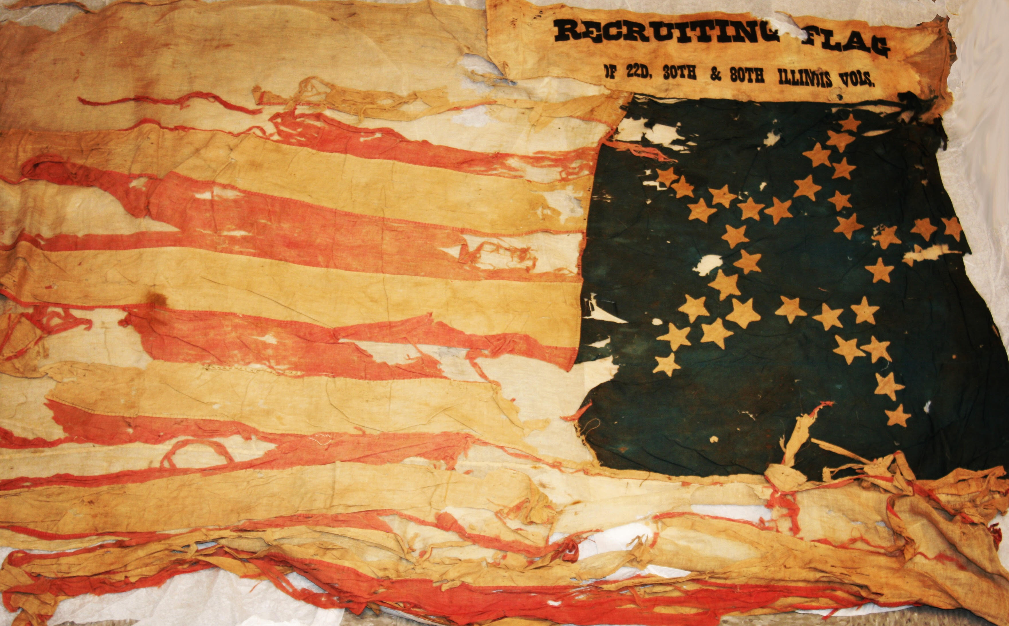 This is a recruiting flag for the 80th Illinois Volunteer Infantry Regiment